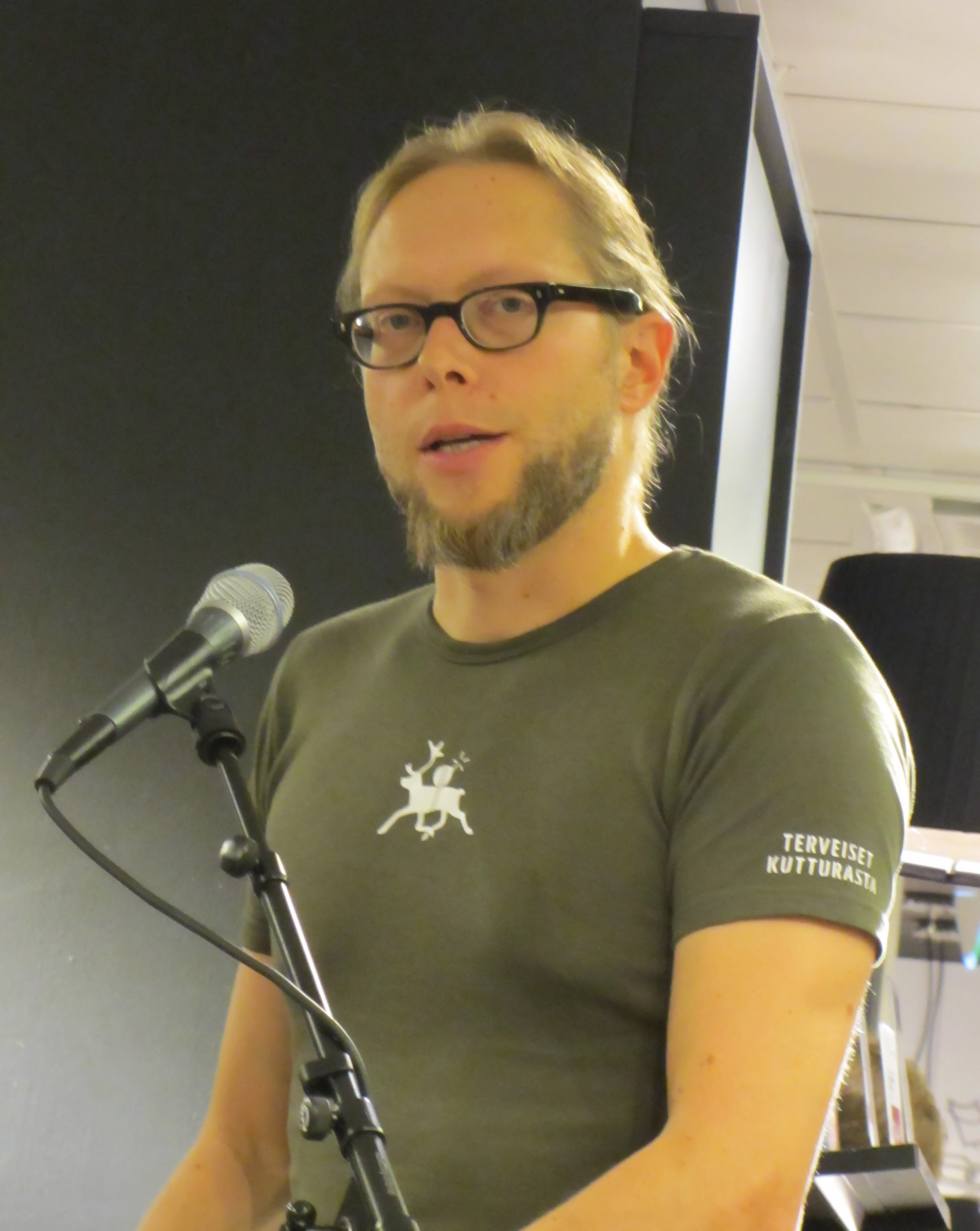 Finnish journalist and writer Mikko-Pekka Heikkinen in a book store on the Night of The Arts in Helsinki 2012